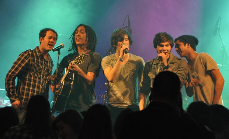 The five band members of Allstar Weekend entertained the military community on Chievres Air Base Jan. 18, 2011. Armed Forces Entertainment presents the tour through U.S. military installations in Europe.